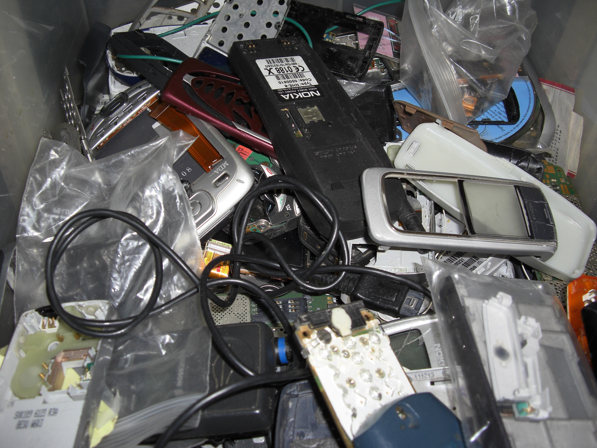 Mobile phone scrap, old decomissioned mobile phones, defective mobile phones